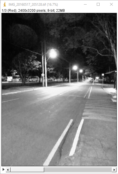 Imagem original. Fonte: Próprio autor